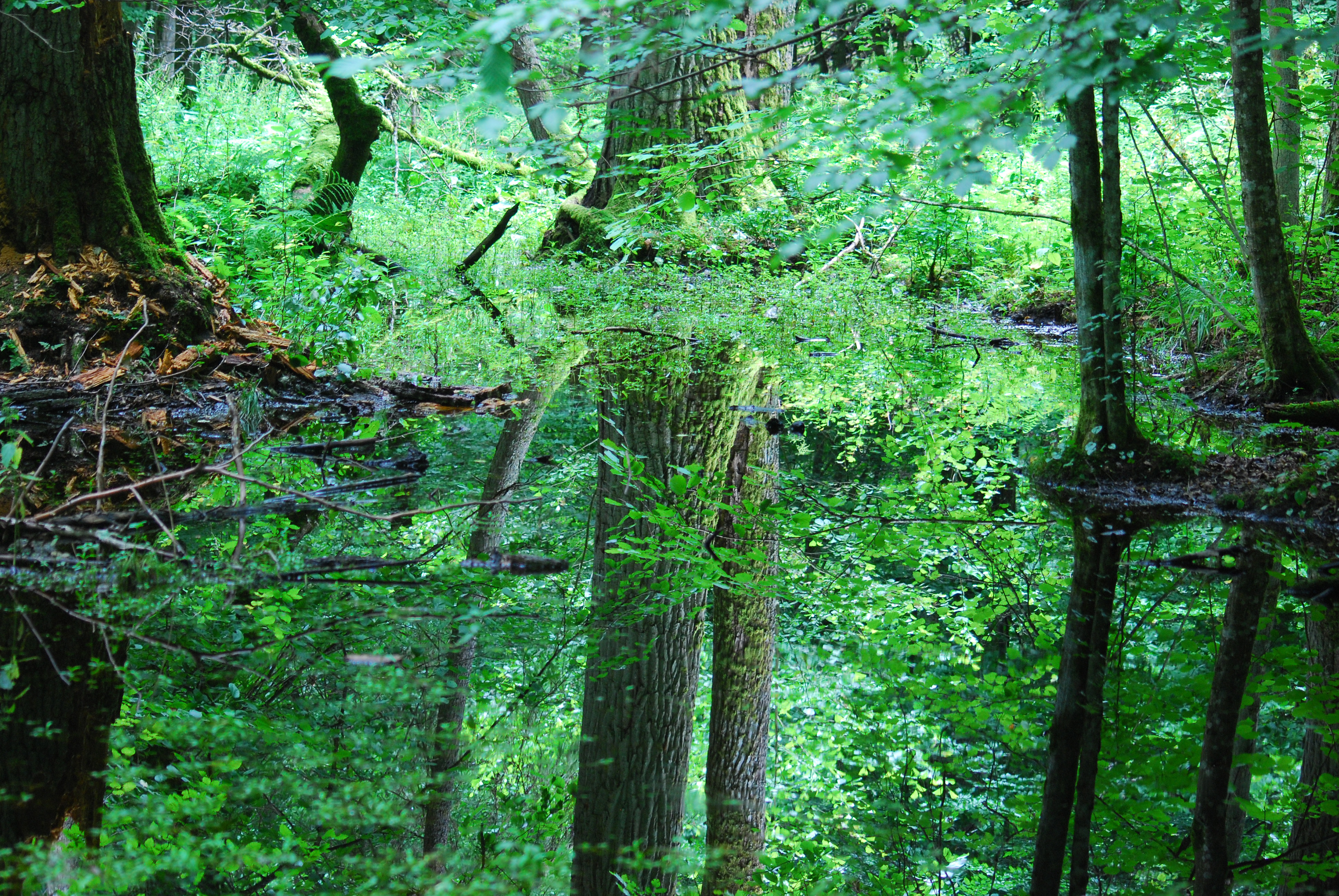 This photo from Podlaskie Voievodeship was taken during Polish Wikiexpedition 2009 set up by Wikimedia Polska Association. The making of this document was supported by Wikimedia Polska. Rezerwat ochrony scisłej Białowieskiego Parku Narodowego